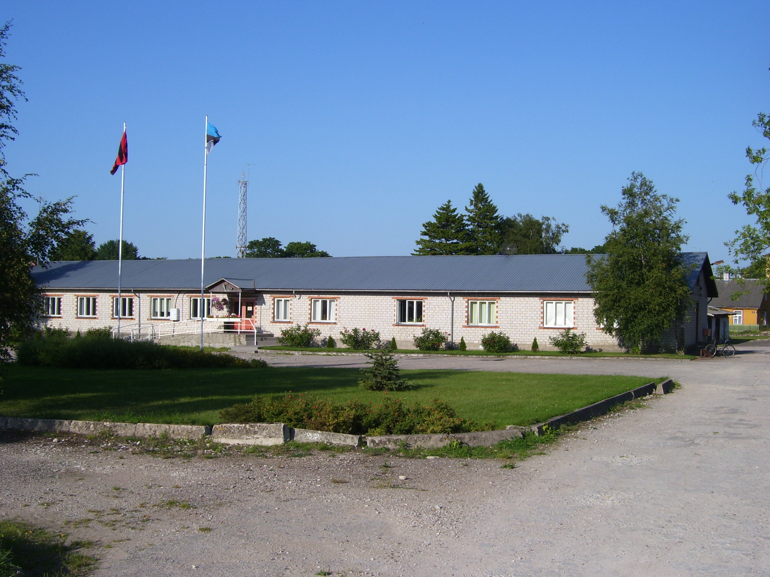 The commune house of the Kihelkonna commune, Estonia